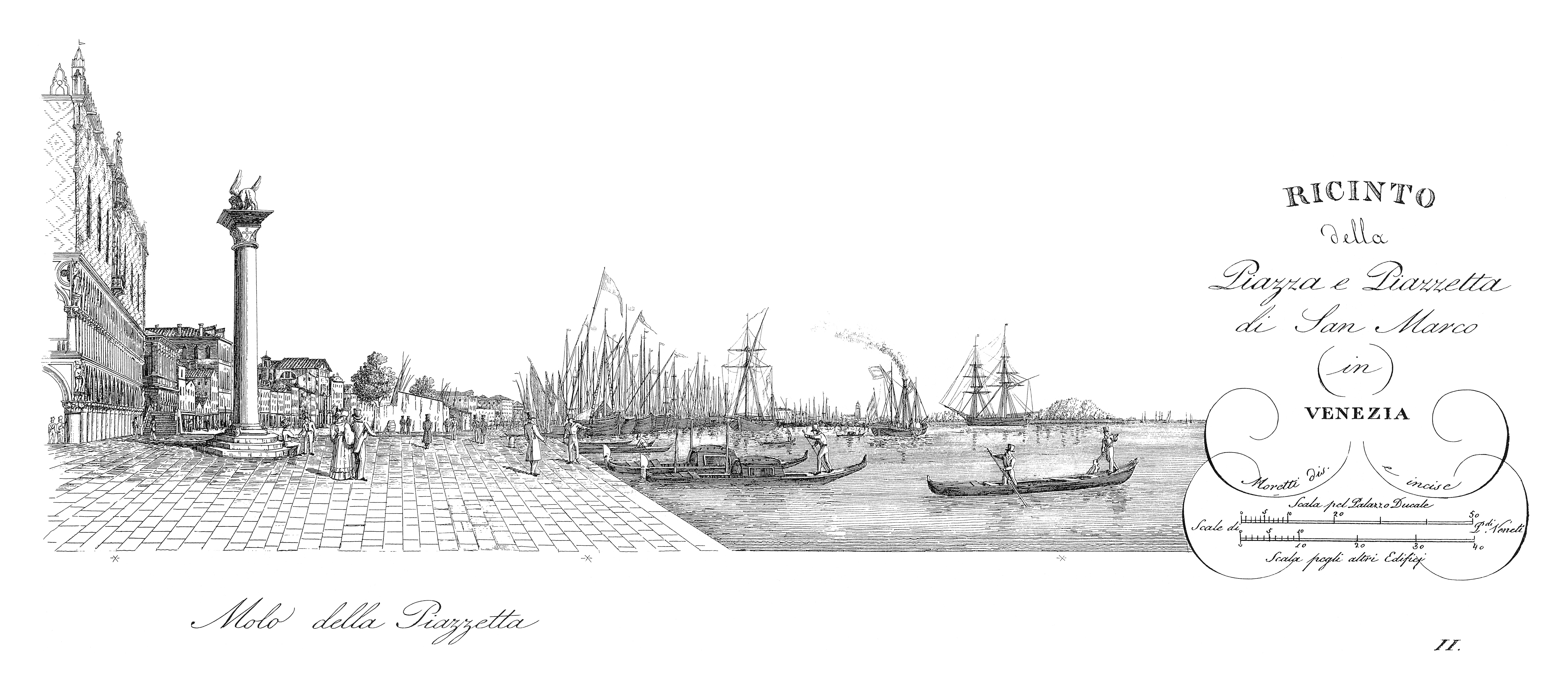 This image shows plate II, entitled Ricinto della Piazza e Piazetta di San Marco in Venezia. The Molo (quay of the Piazza San Marco) and the Riva degli Schiavoni, looking to the east side. At the left, the Palazzo Ducale (Doge’s Palace) and the column with St. Mark’s lion.